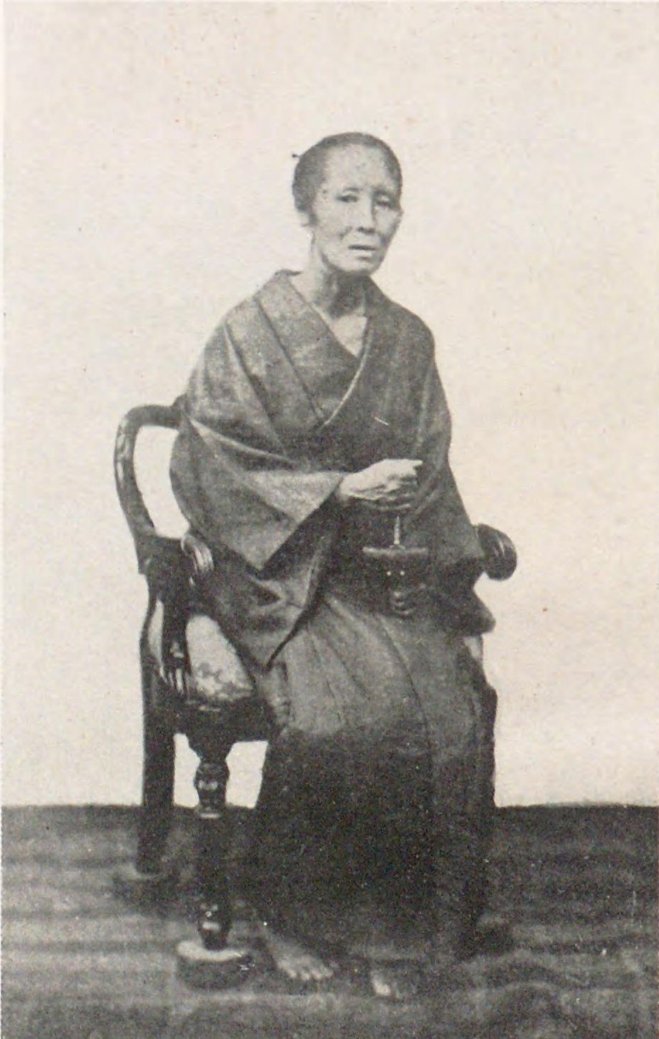 Natsume Chie (1828-1881), the mother of Natsume Soseki.